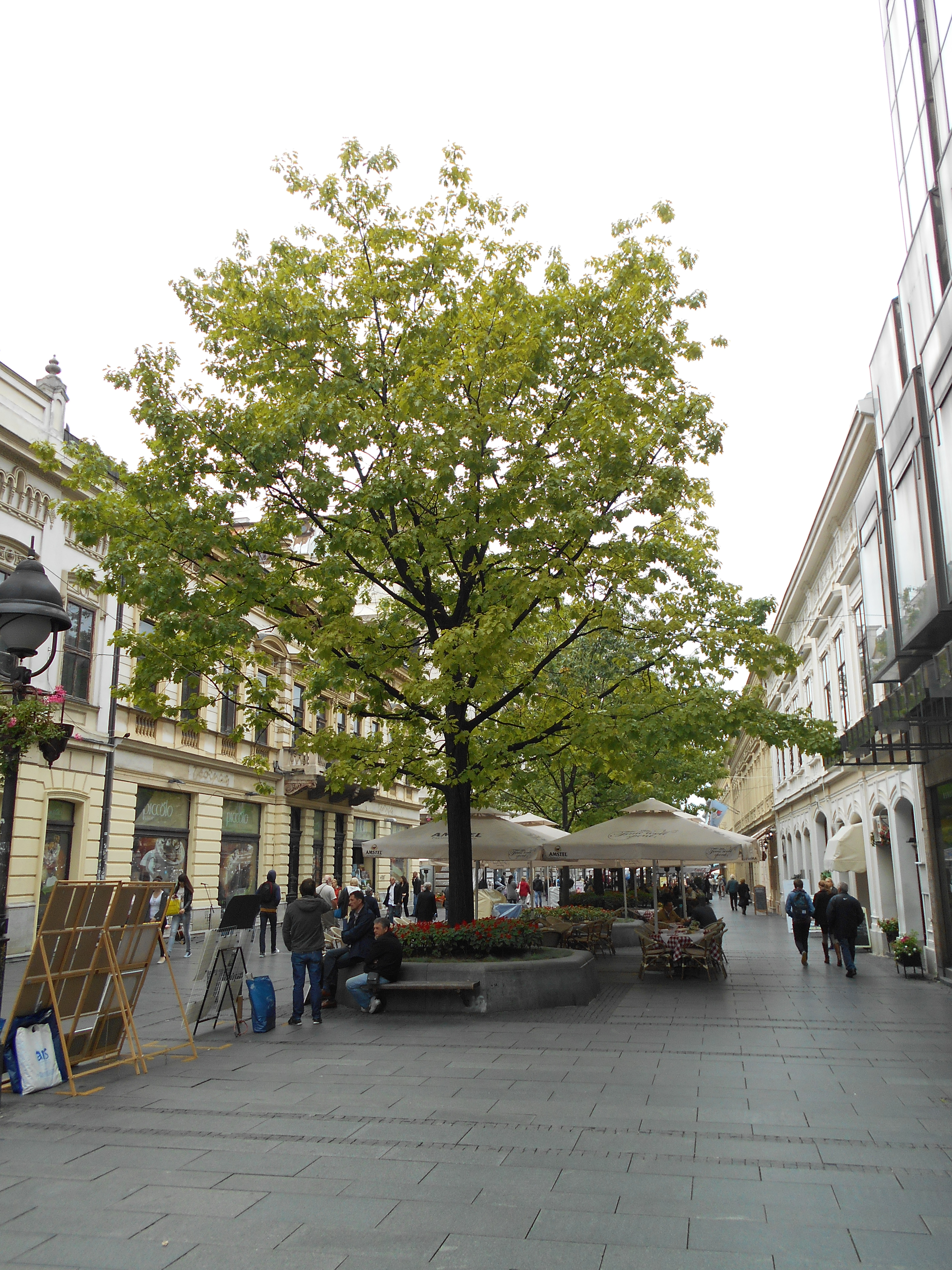 Northern red oak (Quercus rubra) in the heart of the city, planted in flower boxes along the pedestrian zone. Belgrade, Knez Mihailova Street.